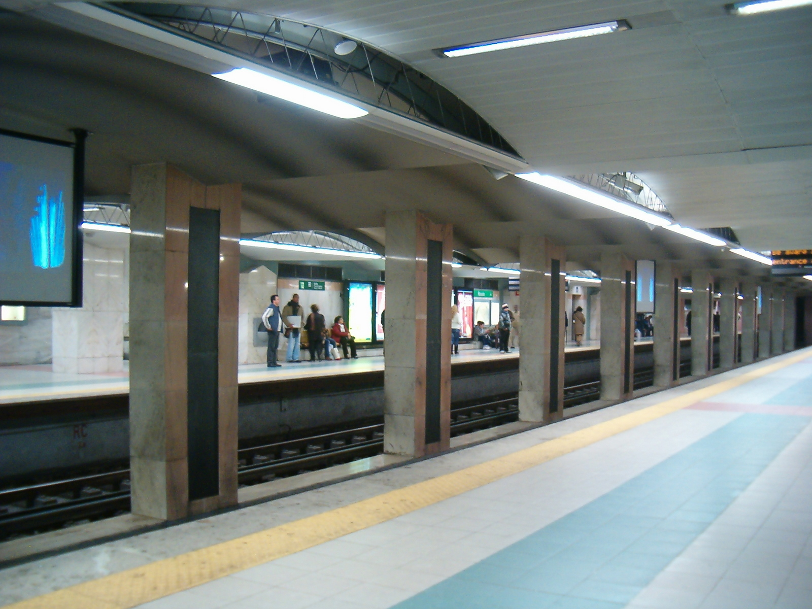 Metro station Rossio (Lisboa)